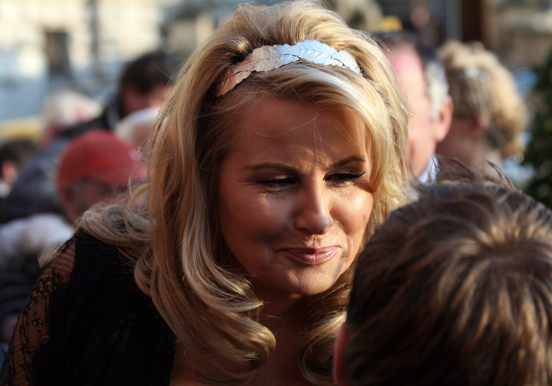 Jennifer Coolidge at the Romy TV awards (Hofburg Imperial Palace in Vienna)